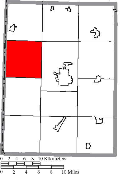 Map of the municipal and township boundaries of Preble County, Ohio, United States, as of the 2000 census, with the location of Jackson Township highlighted. Township borders are shown only in unincorporated areas in order to differentiate incorporated and unincorporated areas more clearly.